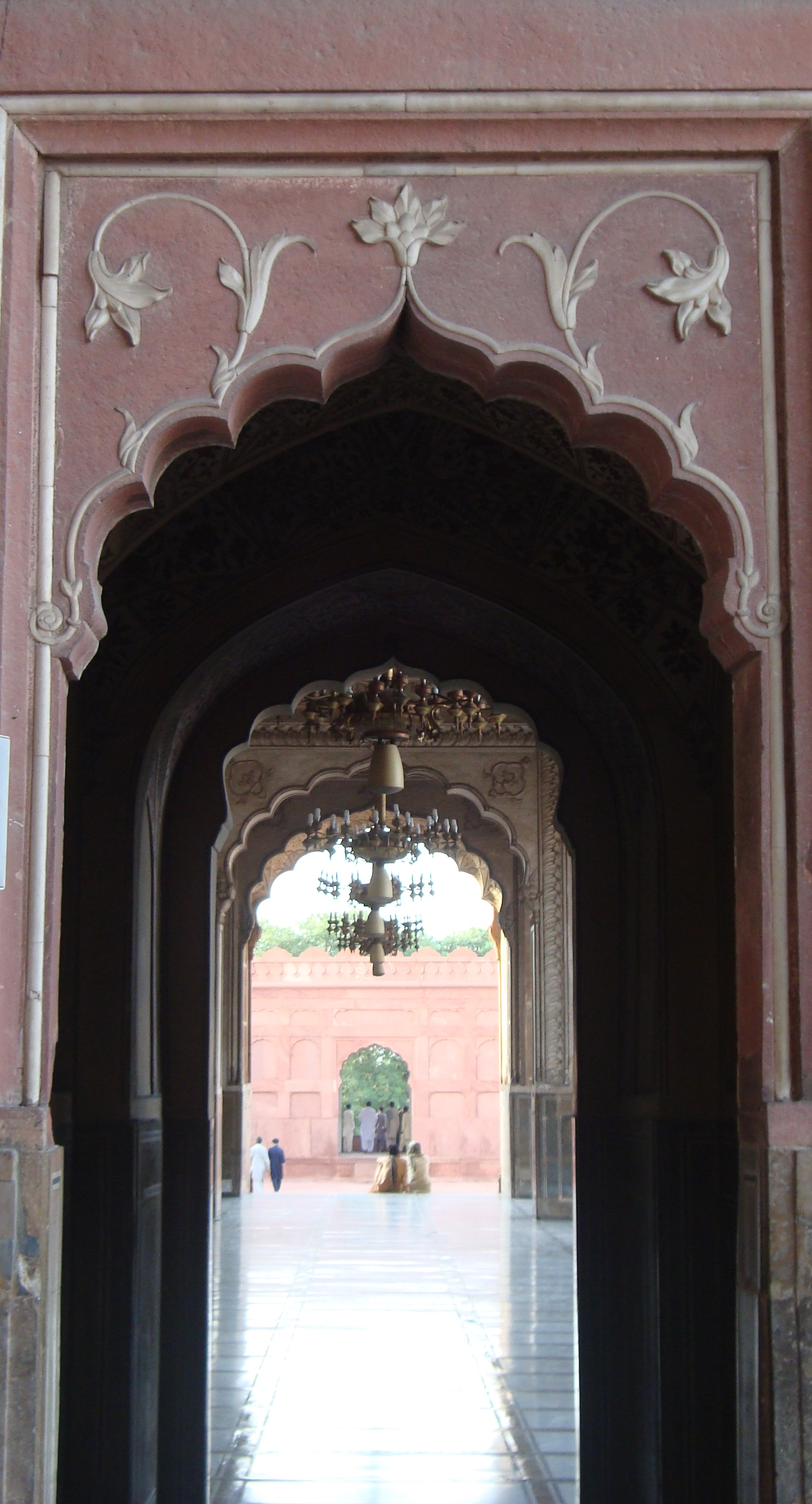 Badshahi Mosque (King’s Mosque) This is a photo of a monument in Pakistan identified as the PB-44